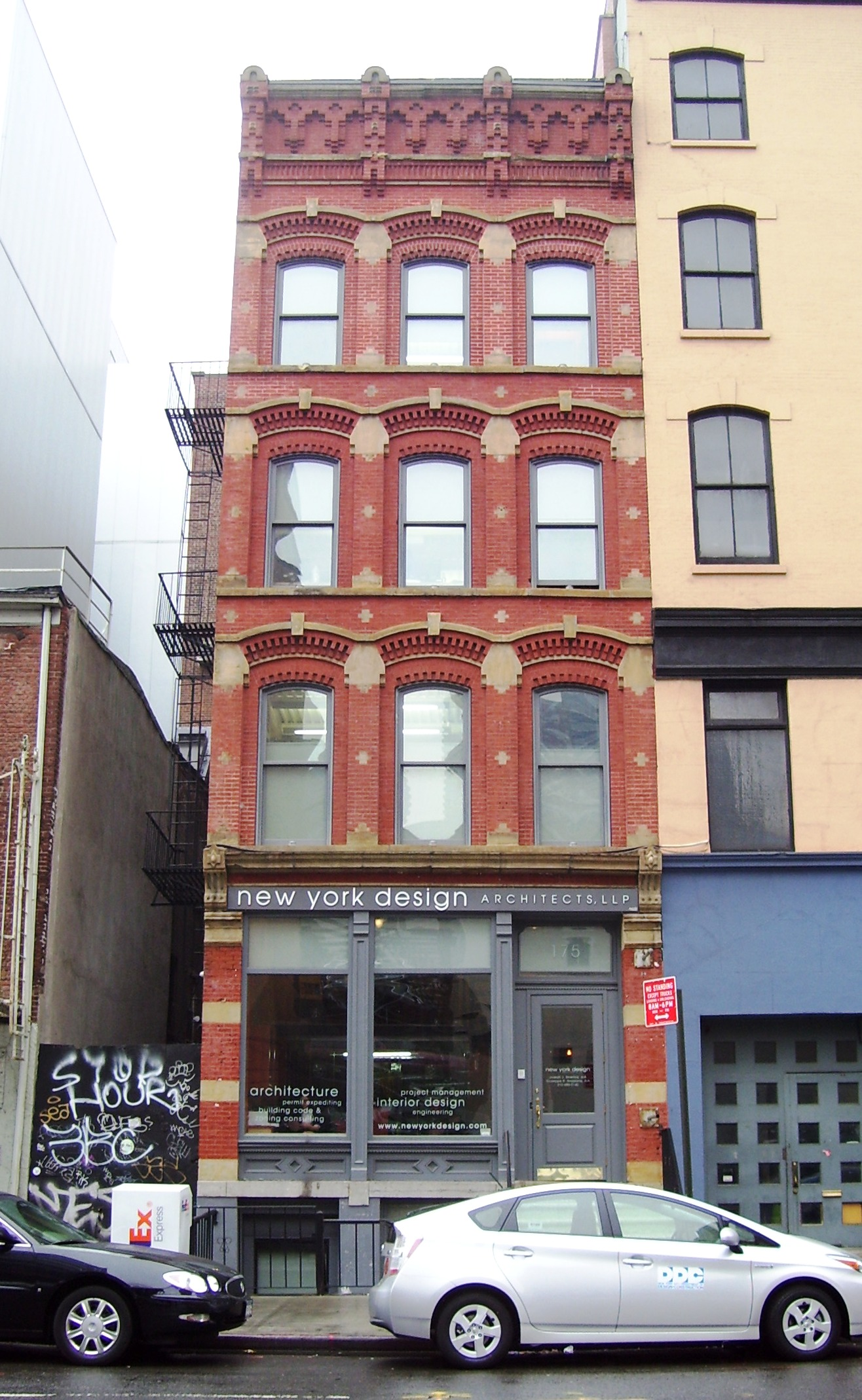 175 West Broadway between Worth and Leonard Streets in the Tribeca neighborhood of Manhattan, New York City was built in 1877 and was designed by Scott & Umbach in the polychromatic manner. "The corbeled window arches and the corbeled brick cornice are without parallel in New York City architecture." (Guide) The building was designated a NYC landmark in 1991. (Sources: Guide to NYC Landmarks (4th ed.) and "NYCLPC 175 Broadway Designation Report")